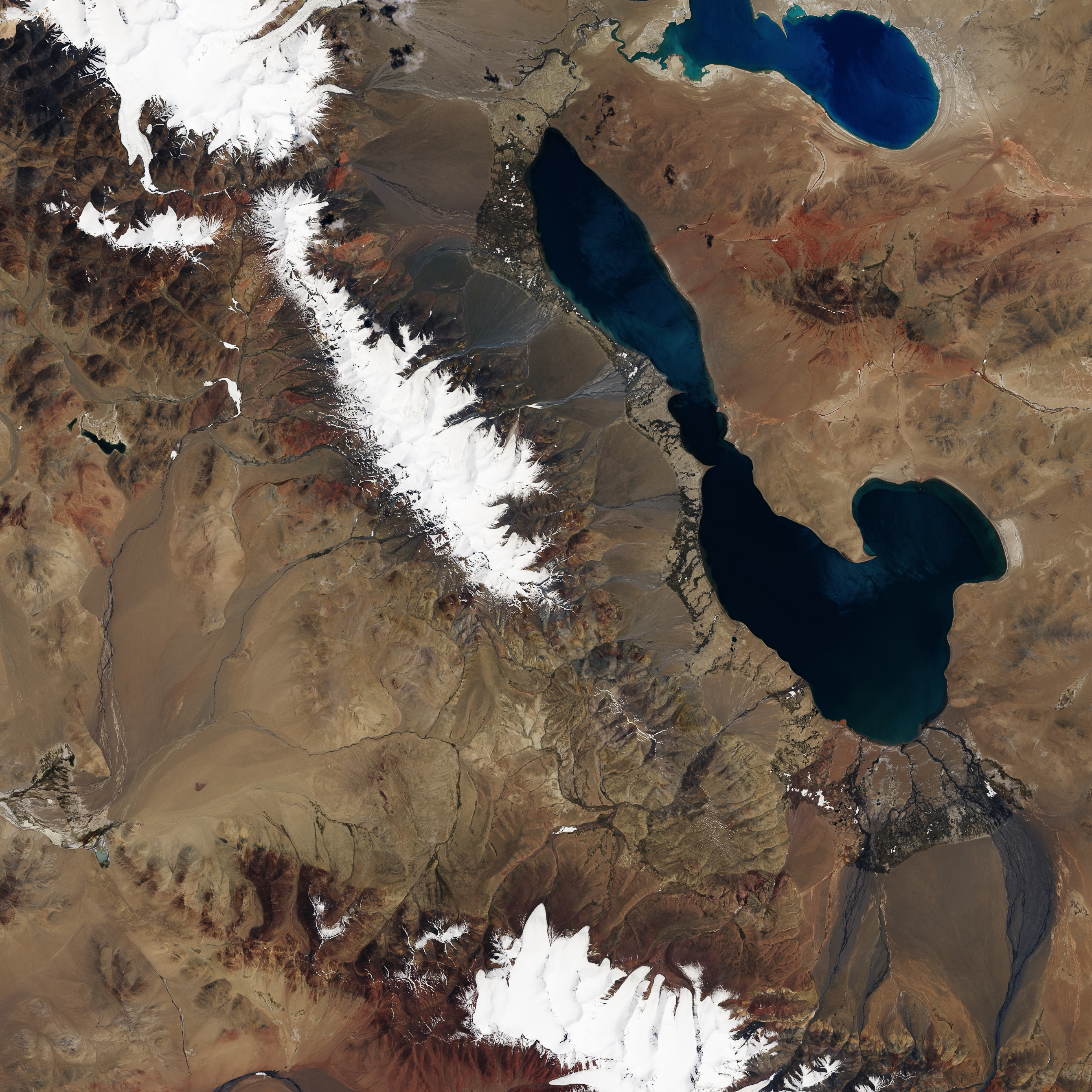 Aru Range before avalanche (at 34°02'45.4"N 82°17'24.6"E)